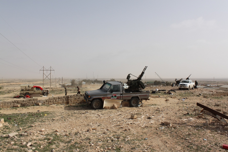 At the main checkpoint near the strategic oil town of Brega, men with what appeared to be better equipment and gear than their untrained comrades began to assemble. They wore emblems indicating their position as engineers or paratroopers and said they were defected "special forces" from Benghazi who were awaiting orders. Despite their more impressive appearance, they still seemed to lack the kind of discipline one might see in Western militaries, or perhaps even Gaddafi's own forces.